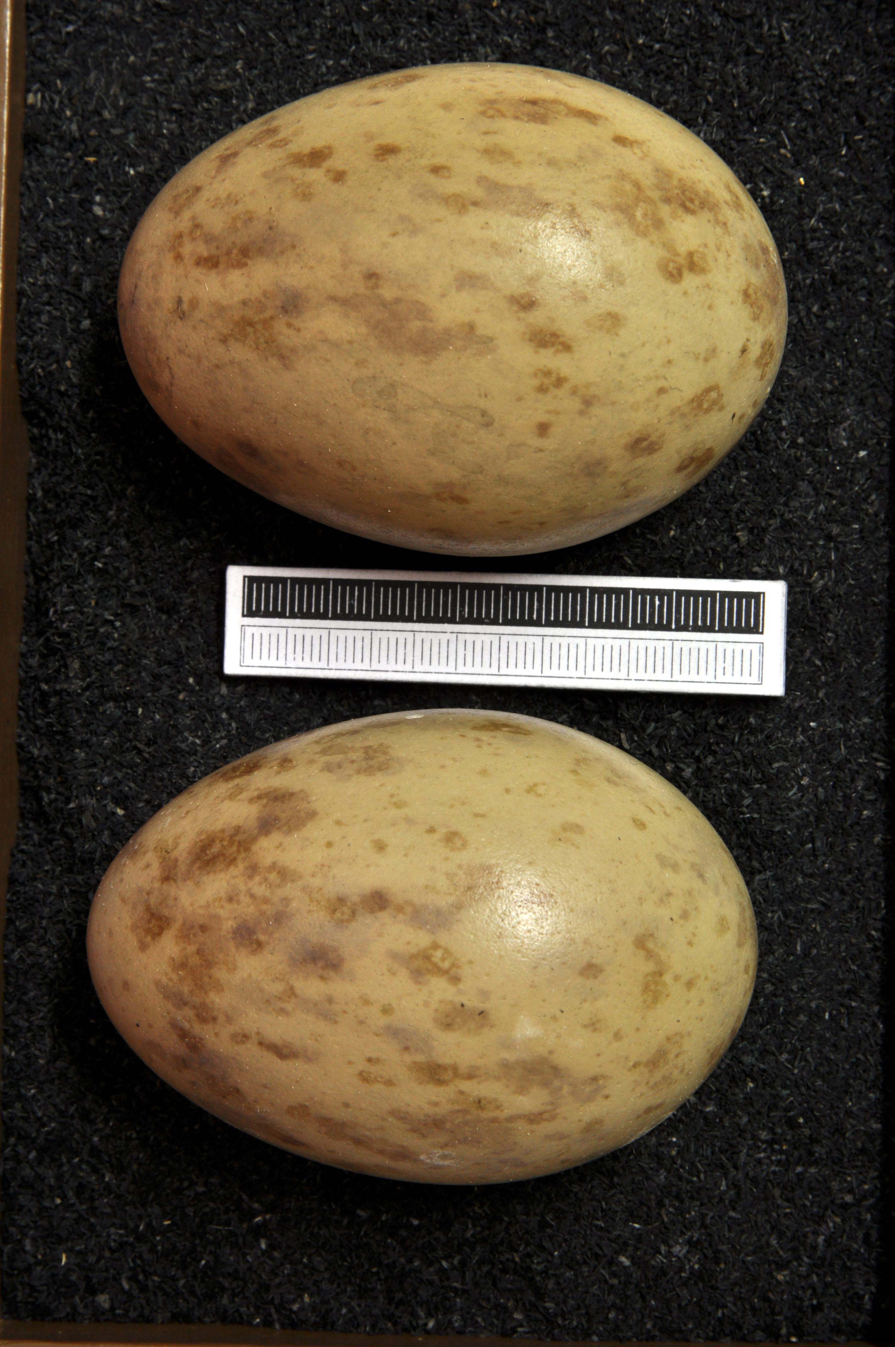 Great bustard Otis tarda , egg, Coll. Museum Wiesbaden